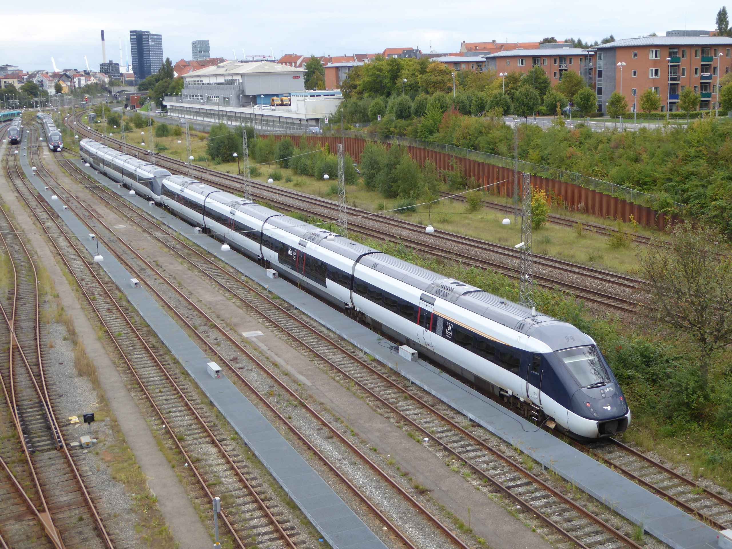 Diesel multiple unit DSB IC4 70 and an unknown fellow parked south of Aarhus H in Denmark.